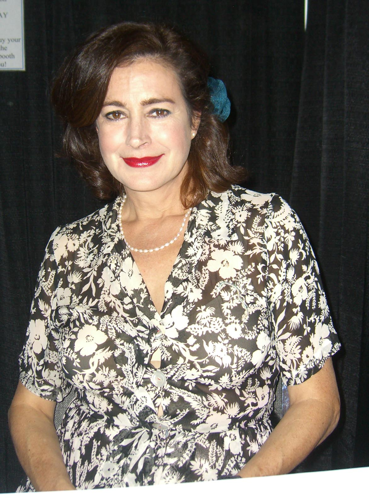 Actor Sean Young at the Big Apple Convention in Manhattan. Photographed by Luigi Novi. This photo may only be used if the photographer is properly credited. (See Licensing information below.)